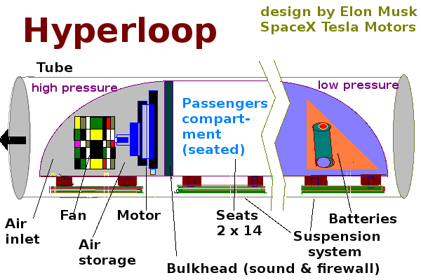 An illustration based on the proposed design of a new transportation system called Hyperloop by Elon Musk of SpaceX and Tesla Motors. Passengers travel in a vehicle which travels inside a tube. To solve the problem of high pressure in front of the vehicle, a compressor fan and motor shunts air to the rear.